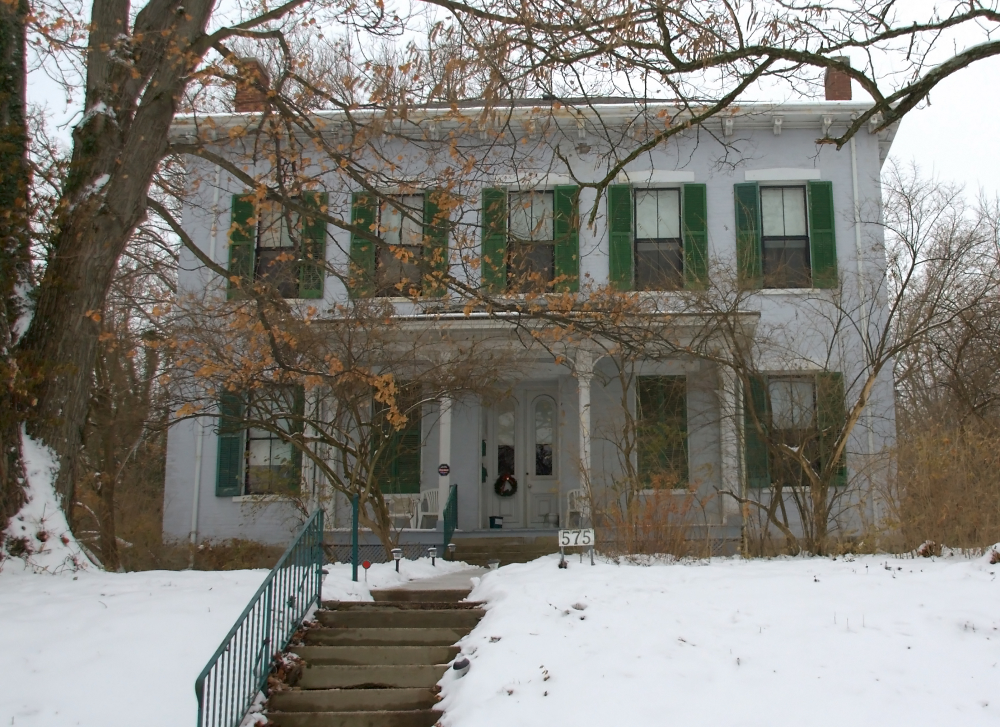 Edgeton House in Hamilton, Oh. Photo by Greg Hume